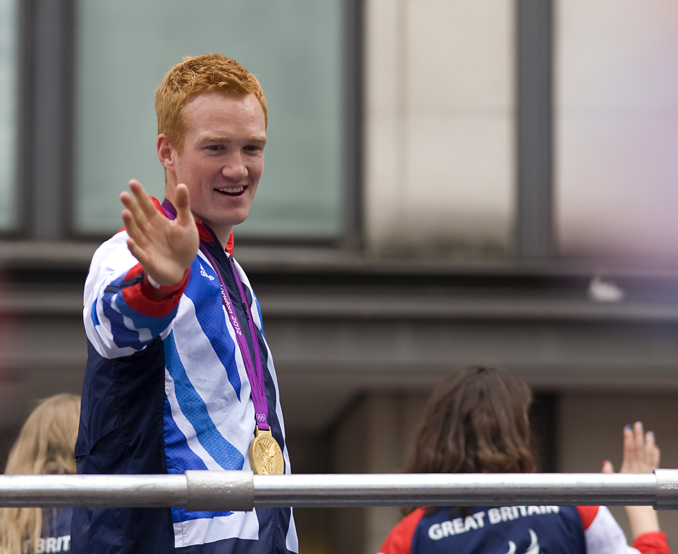 London 2012 Olympic & Paralympic Games Victory Parade, 10th September